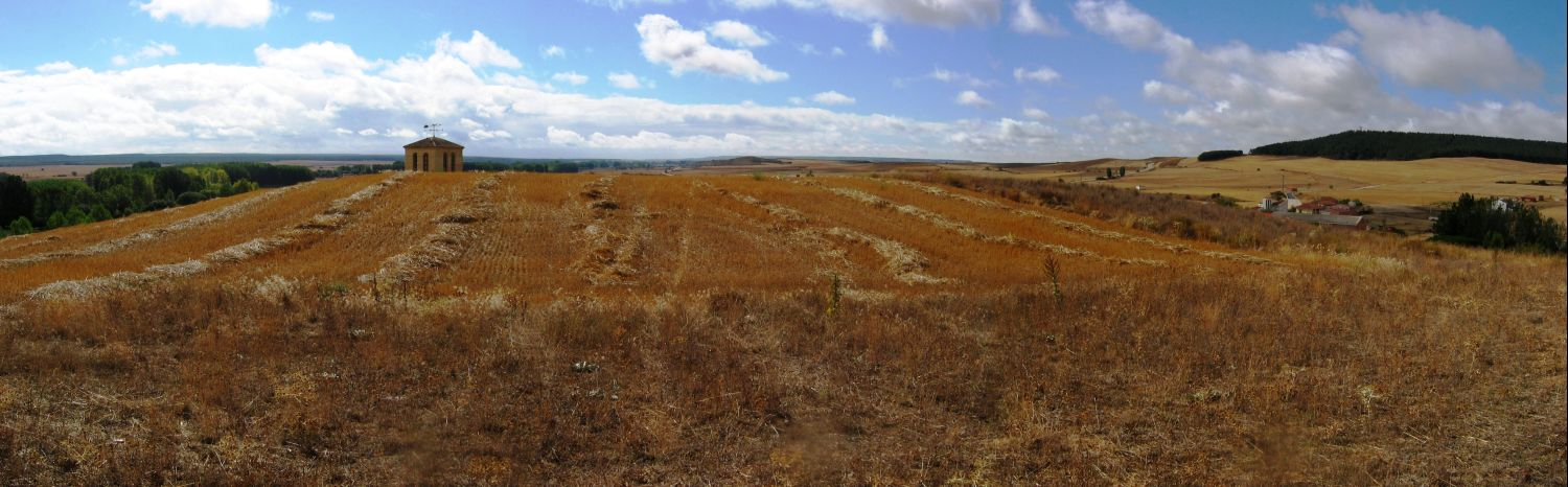 Panoramica desde el Castillo de Agüero en Buenavista